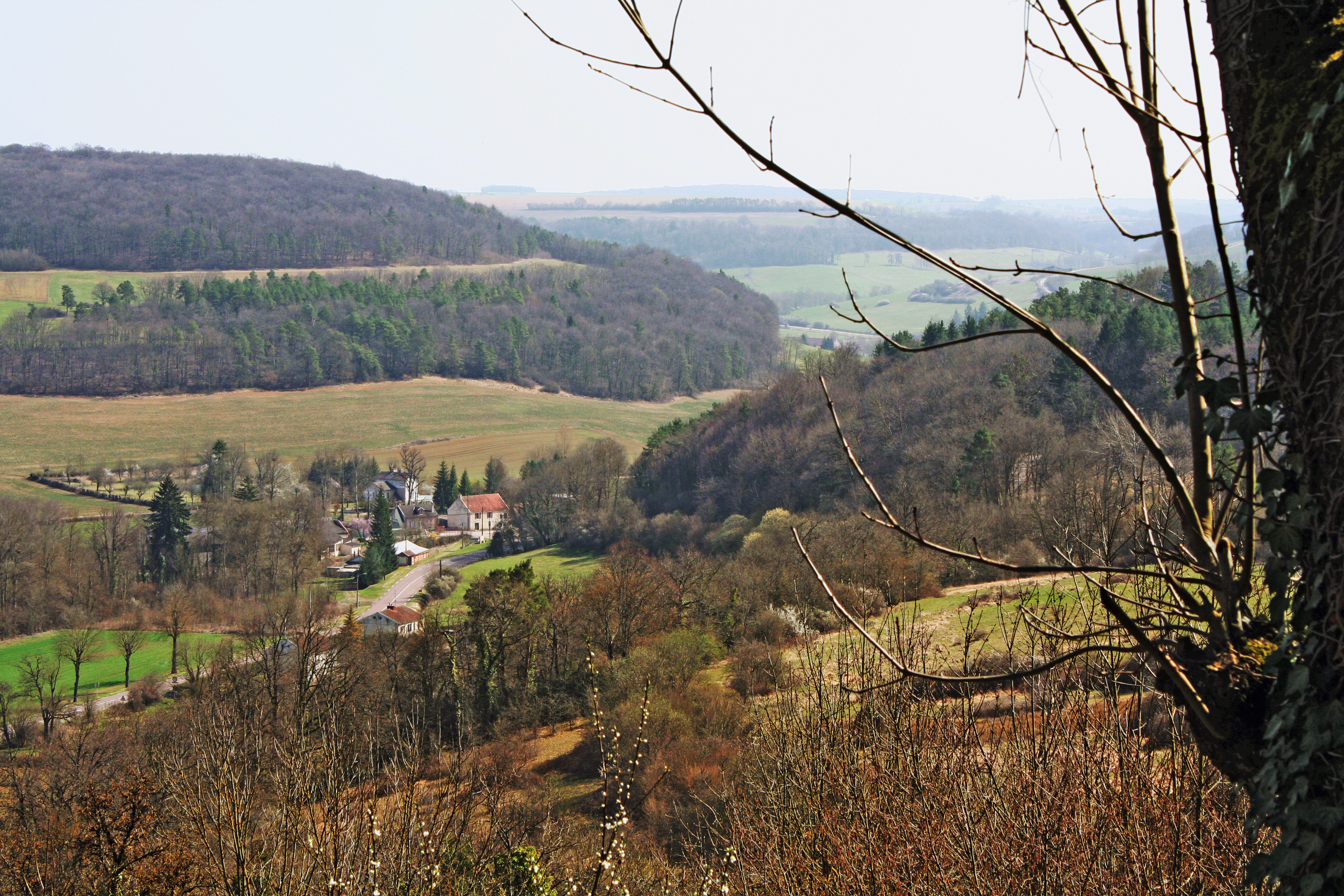 Chenecières hamlet in hight valley of Seine